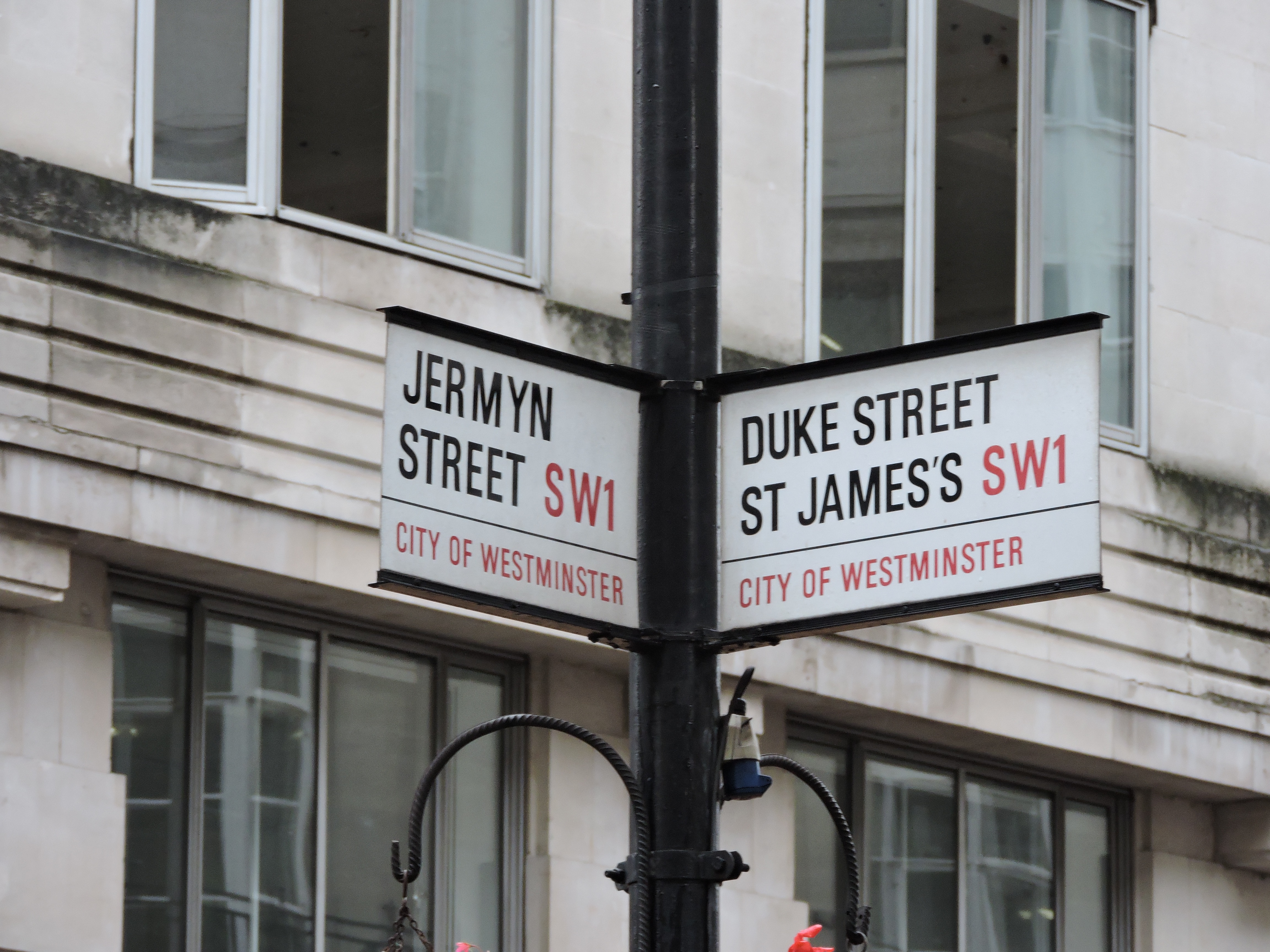 Street Sign for the Junction of Jermyn Street and Duke Street, St James's